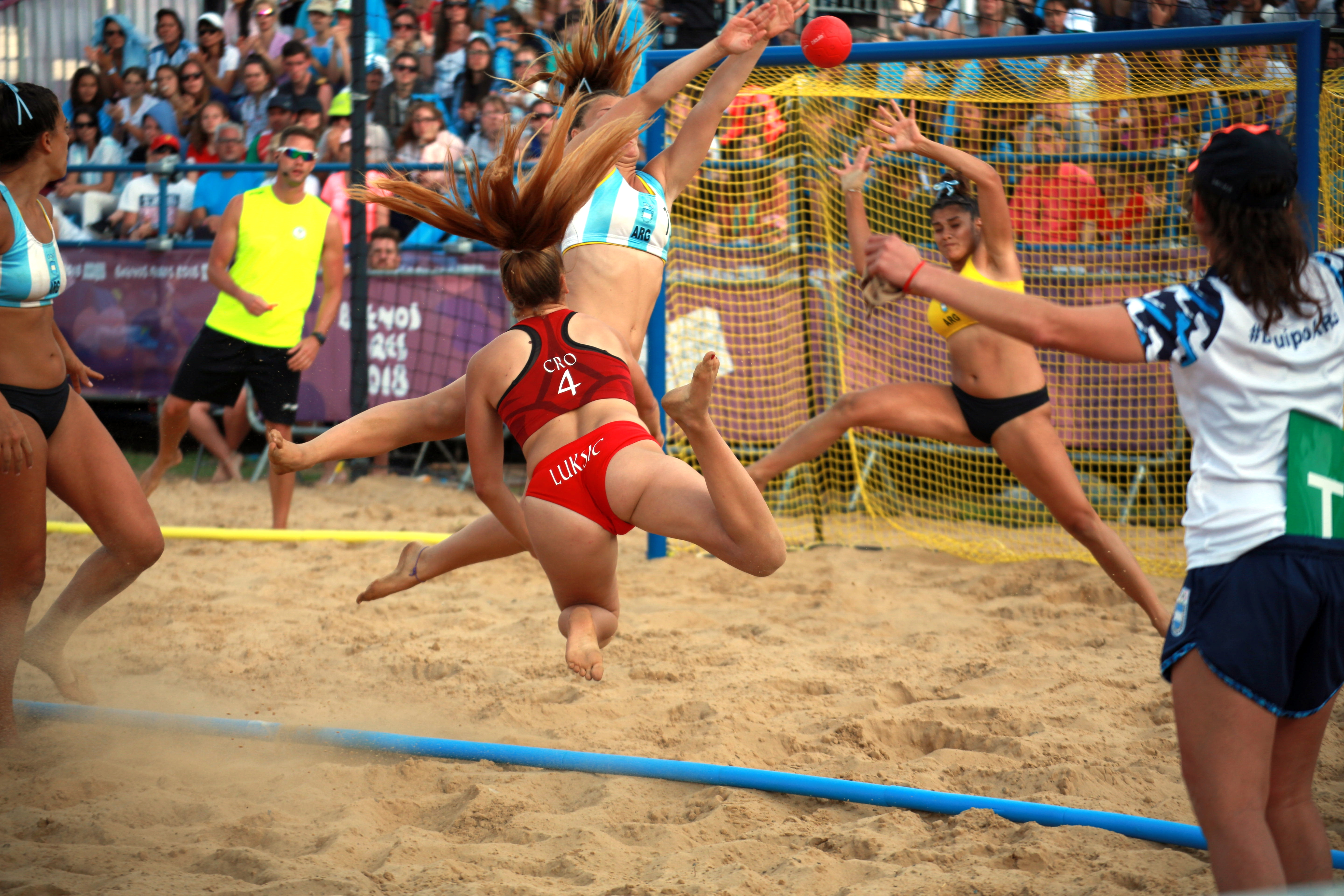 Beach handball at the 2018 Summer Youth Olympics in Buenos Aires at 13 October 2018 – Girls Gold Medal Match – Argentina-Croatia 2:0